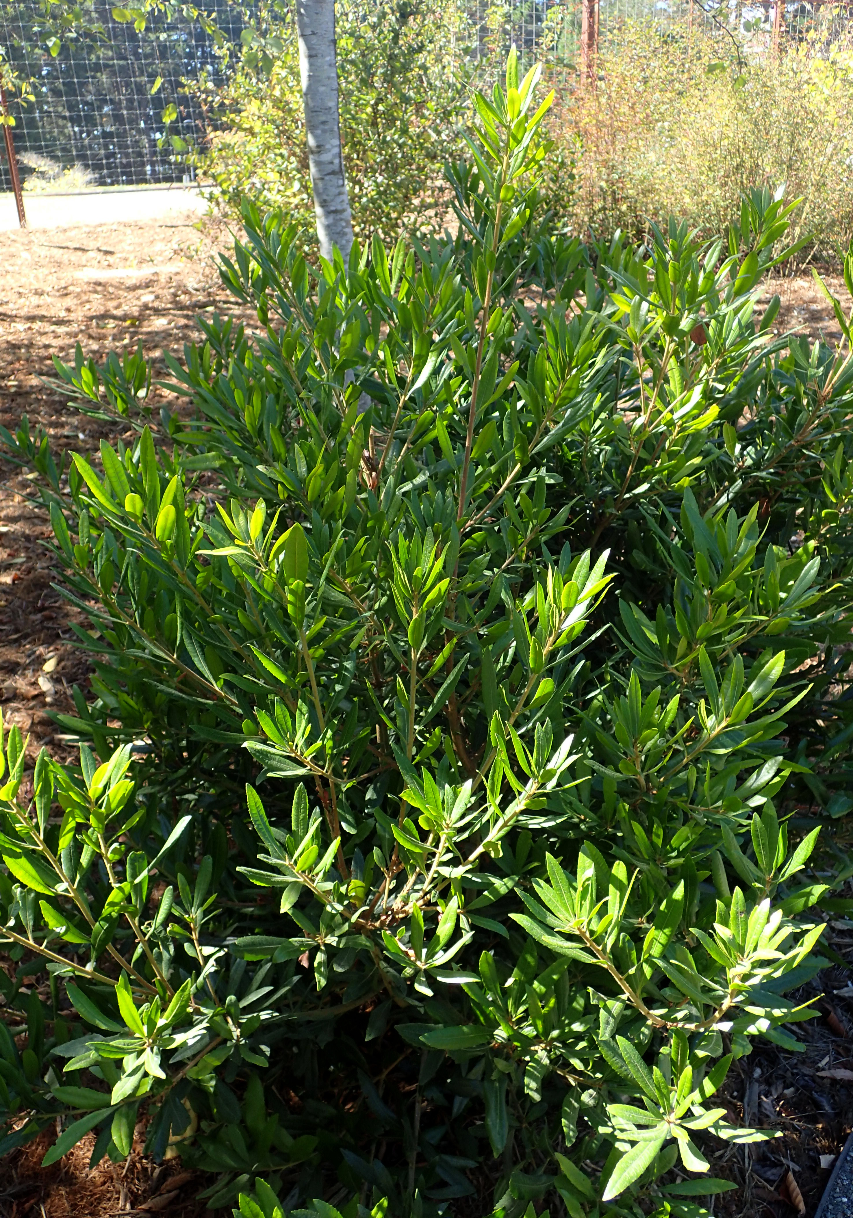 Myrica californica in the Humboldt Botanical Garden, Eureka, Ca